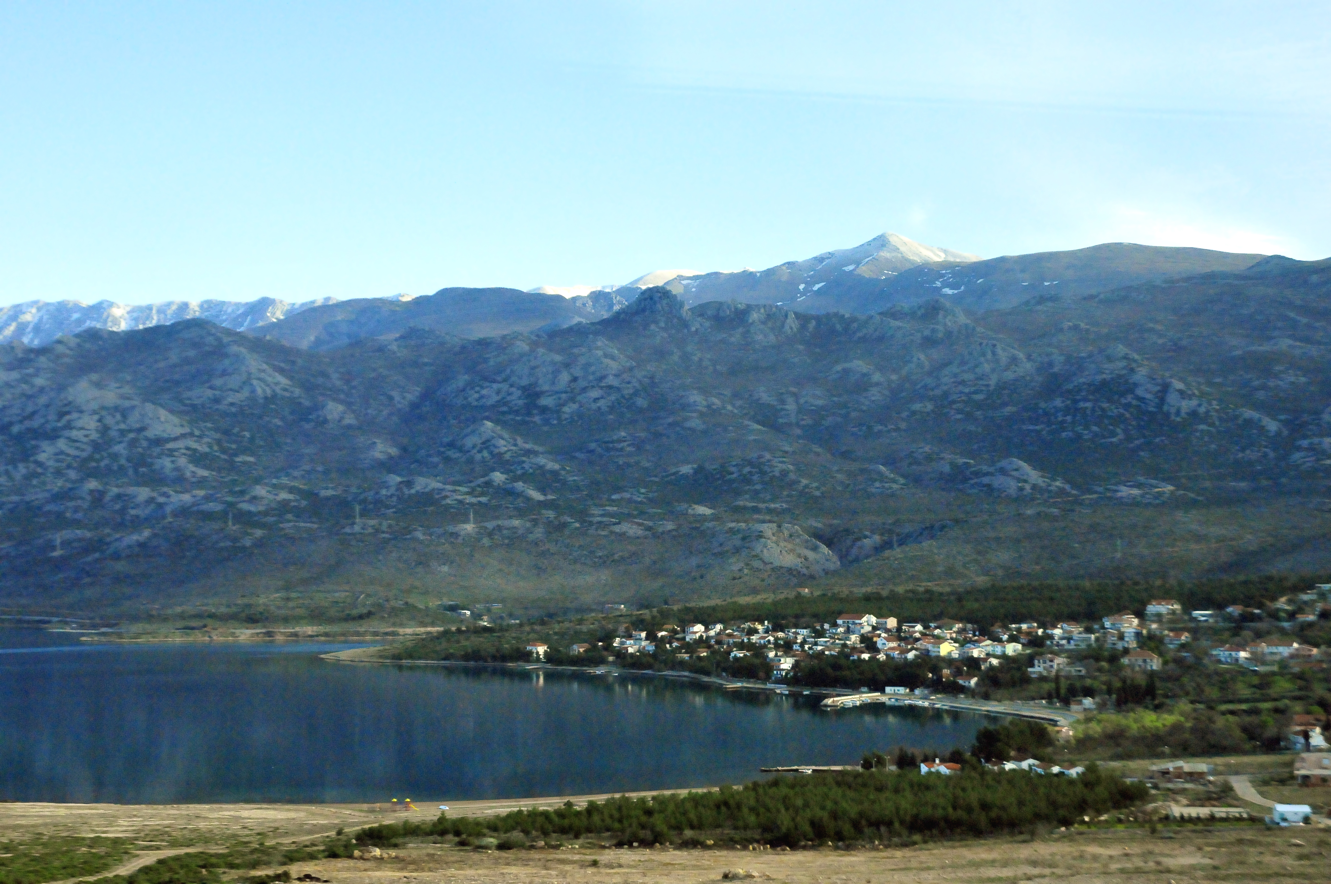 The village of Rovanjska, beside the sea inlet; on the background, the Paklenica range. Zadar, Dalmatia, Croatia